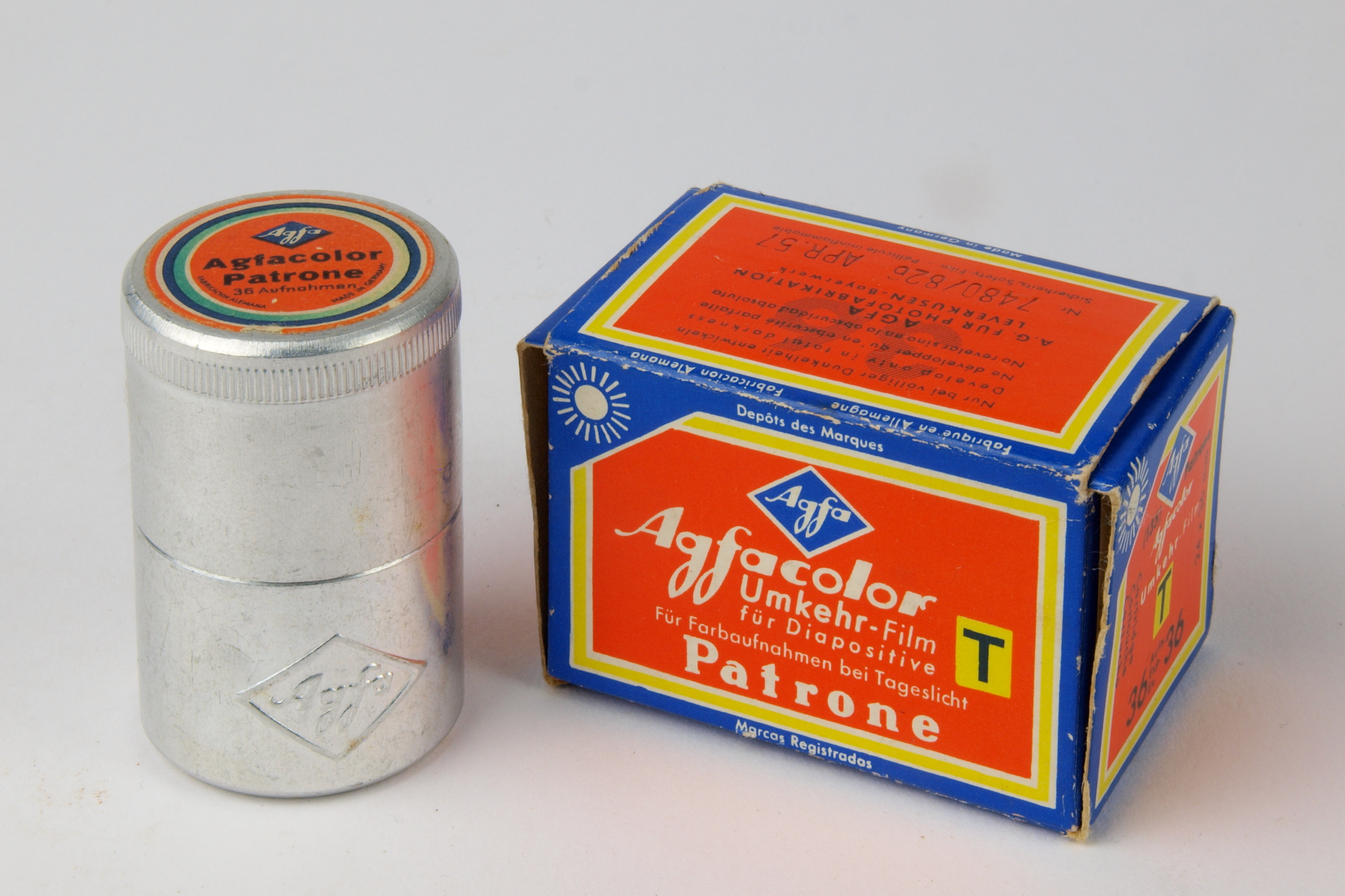 Agfacolor Reversal-flm T for Trasparecnies. Box with aluminium cartridge and original film material inside. Lot No. 7480/826, April 1957. AGFA A.G. für Photofabrikation Leverkusen - Bayerwerk. Germany. Length: 57 mm (2.24 in); Width: 37 mm (1.45 in); Depth: 37 mm (1.45 in) dimensions QS:P2043,57U174789;P2049,37U174789;P5524,37U174789 Weight: 0.03 kg (0.07 lb)